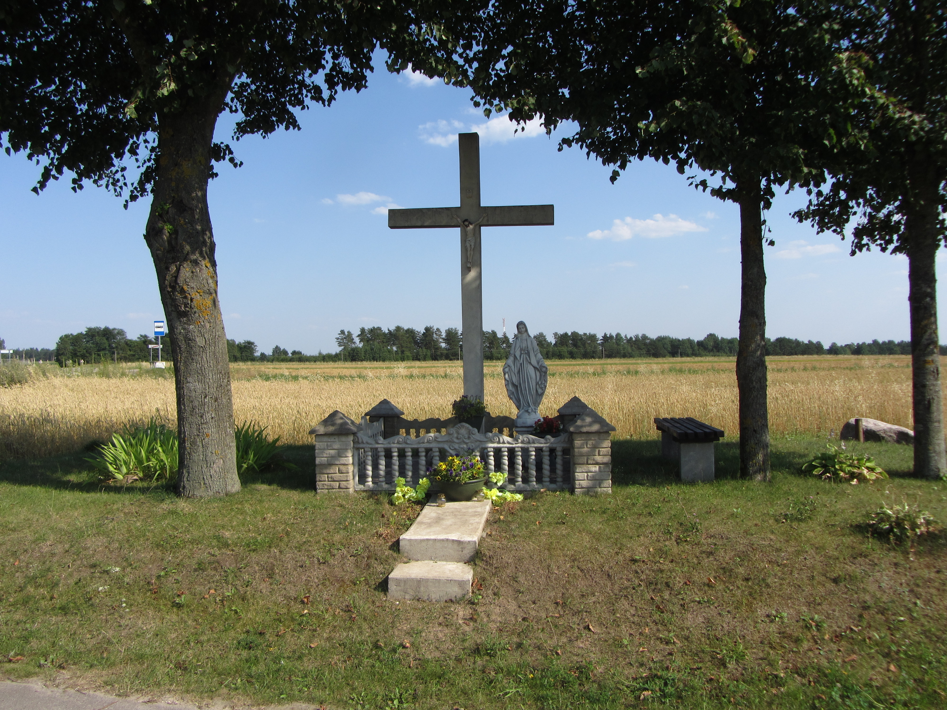 Tribonys 17127, Lithuania